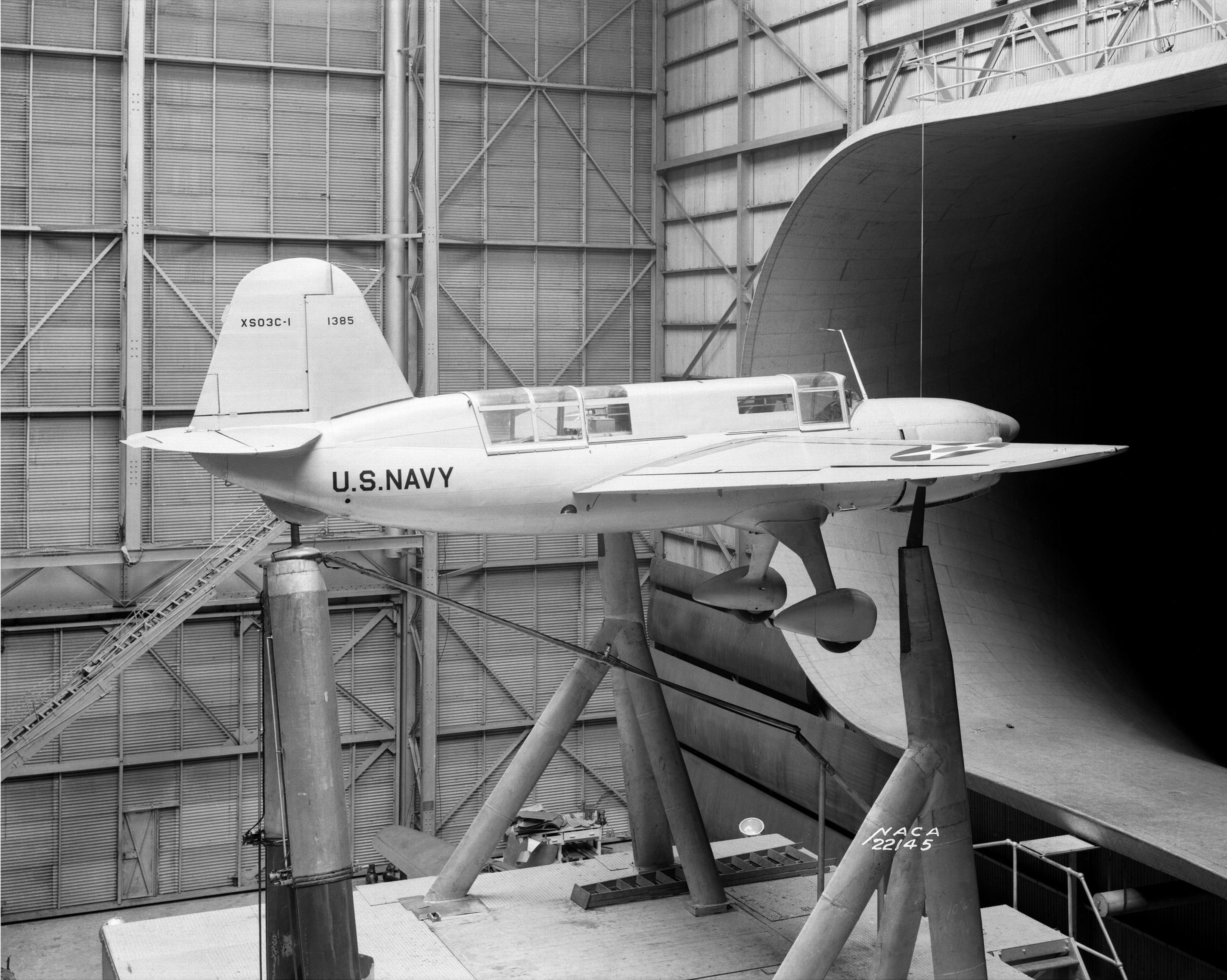 The Curtiss XSO3C-1 Seamew (BuNo 1385) in the wind tunnel of the NACA Langley Research Center, Virginia (USA), 17 October 1940.